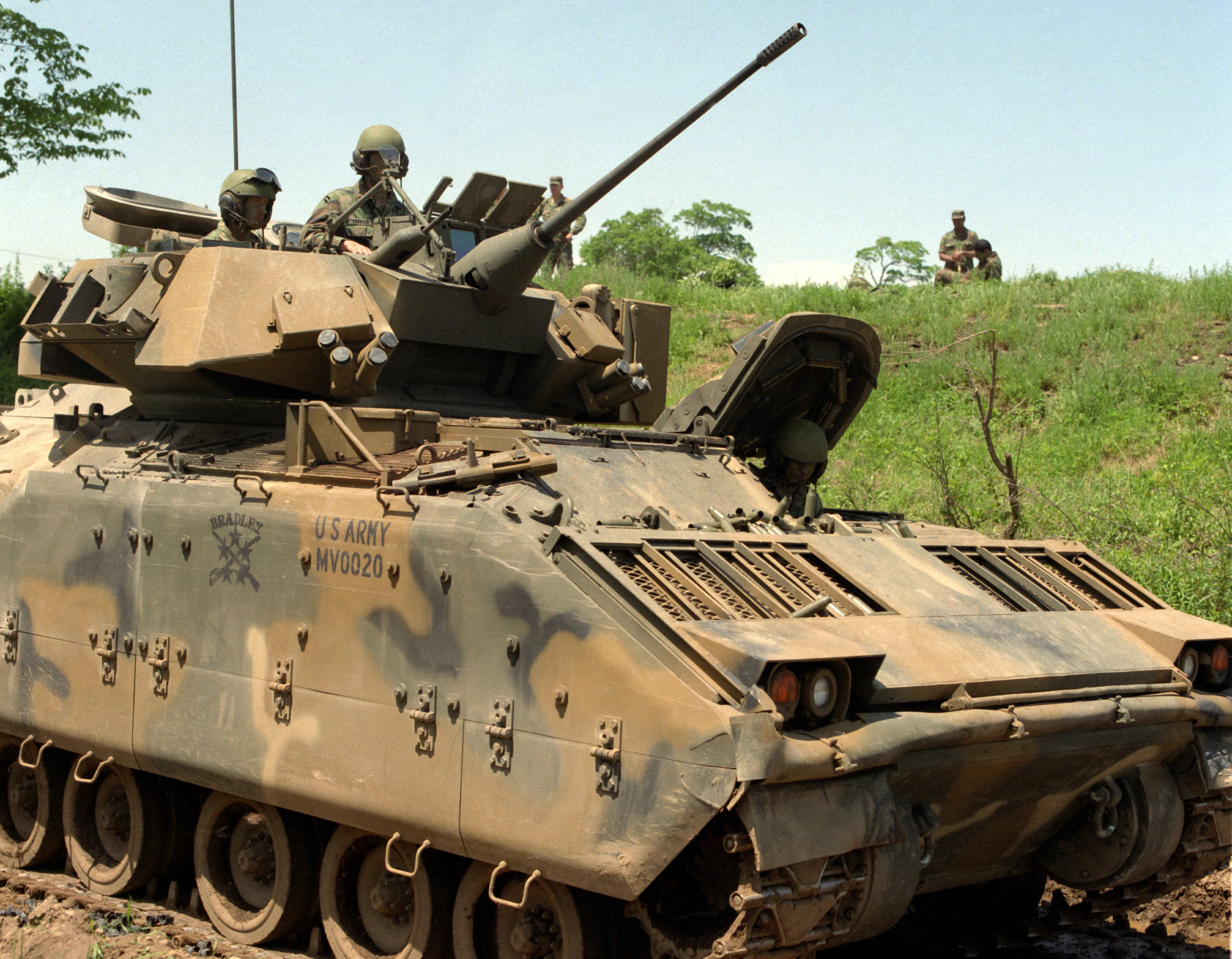 Crewmen in the coupla of an M-2 Bradley infantry fighting vehicle elevate the barrel of the M-242 25mm cannon during the capabilities exercise portion of Exercise Shadow Hawk '87, a phase of exercise Bright Star '87. The exercise will evaluate procedures used to deploy U.S. tactical and logistical forces.